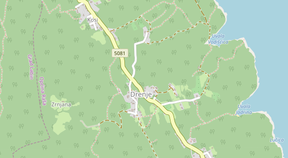 Small hamlet in Istria County Croatia